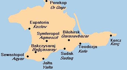 Map of Crimea with old names